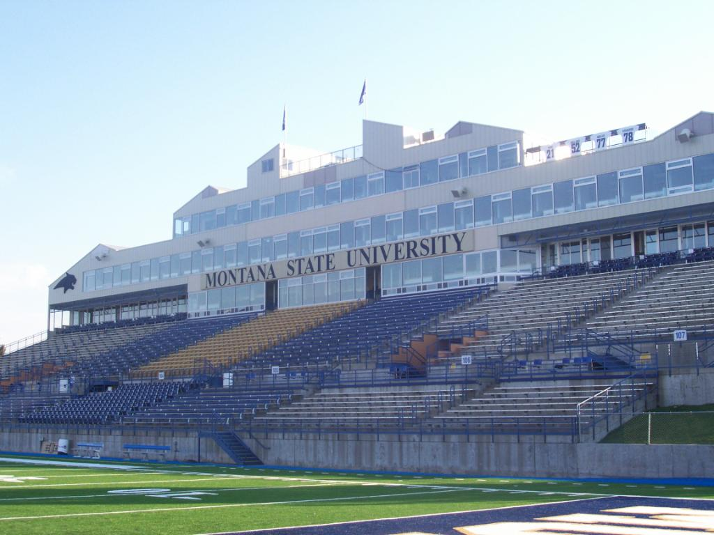 Bobcat Stadium on the campus of Montana State University, Bozeman, Montana.